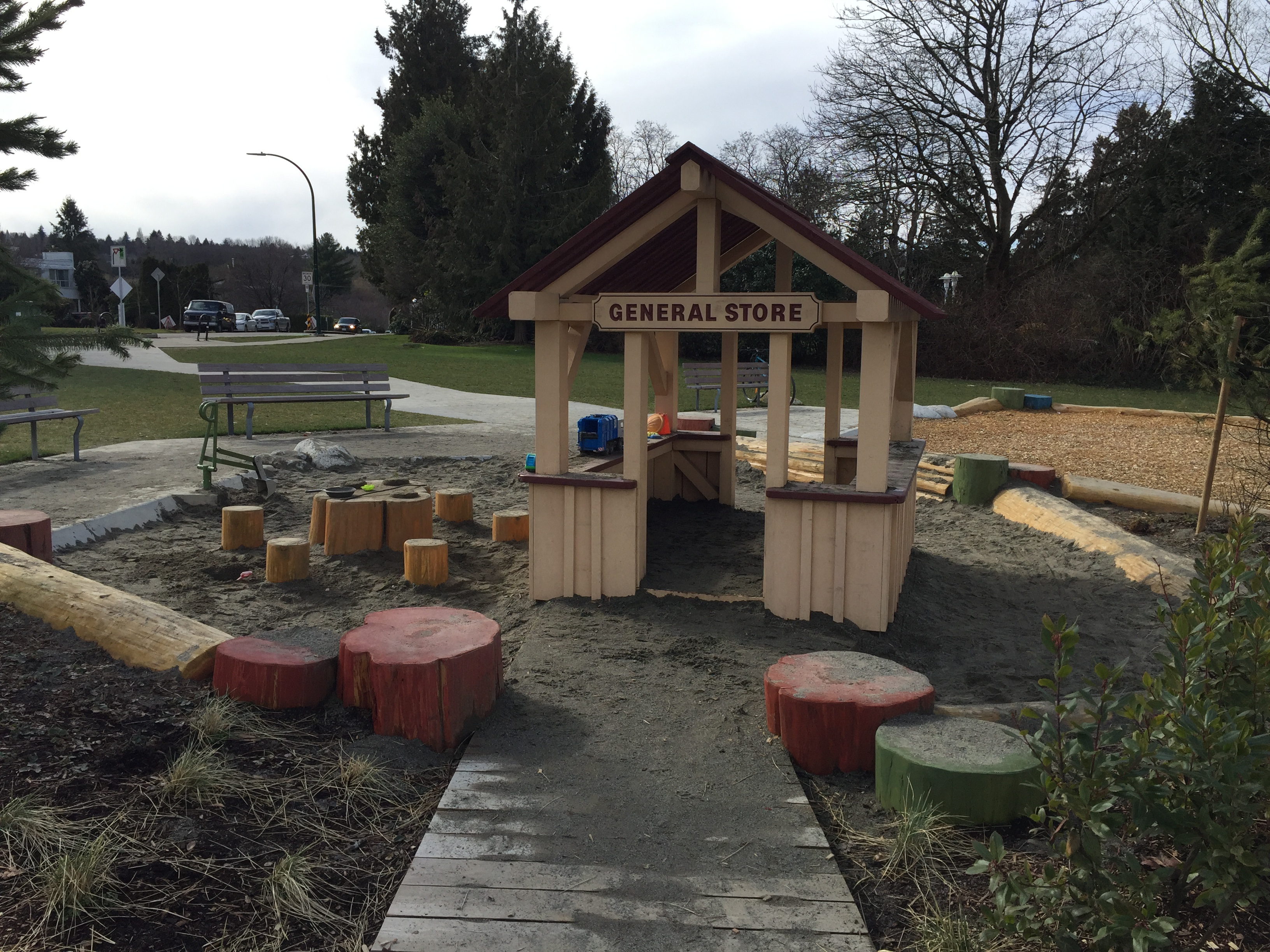 Closer view of playground